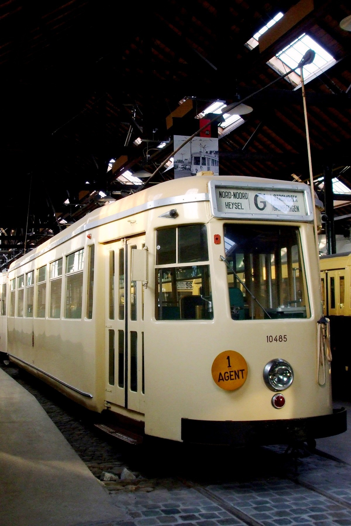 Keywords: SNCV, vicinal railways, rail, tram, electric motor car, type "N", Musée du Transport Urbain Bruxellois, Belgium